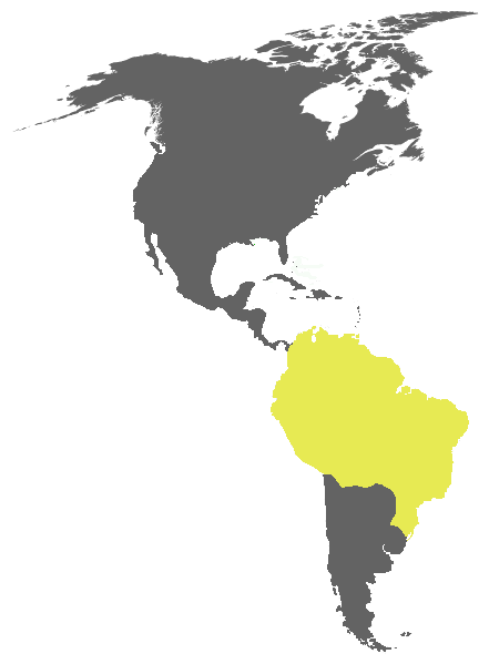 range map for the Greater Yellow-headed vulture Cathartes melambrotus, based on IUCN data. (yellow indicates presence)